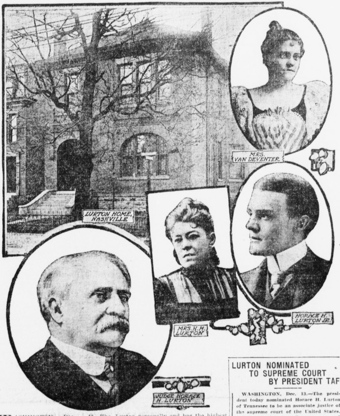 Newspaper pastiche of Horace Harmon Lurton, American jurist, his home and his family, 1909